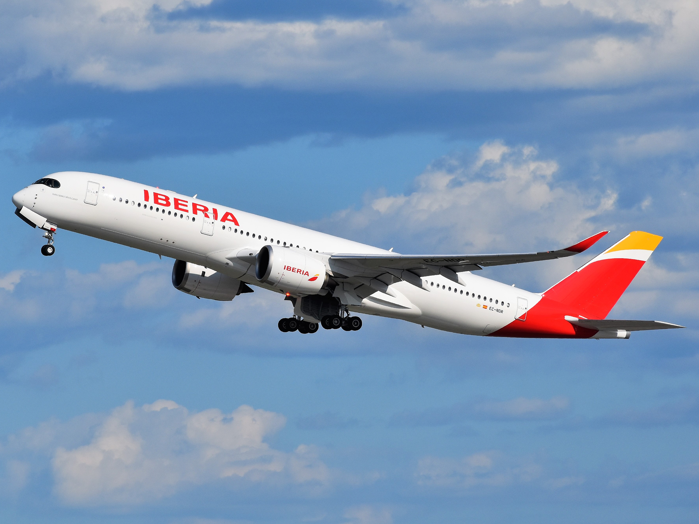 An Iberia Airbus A350-900XWB has just departed John F. Kennedy International Airport on a flight to Madrid Barajas Airport as Flight IB6250.